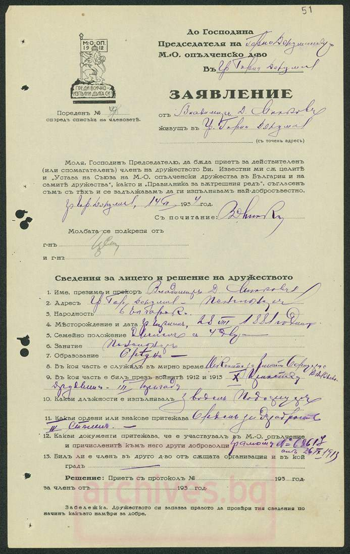 Vladimir_Milkov's Document